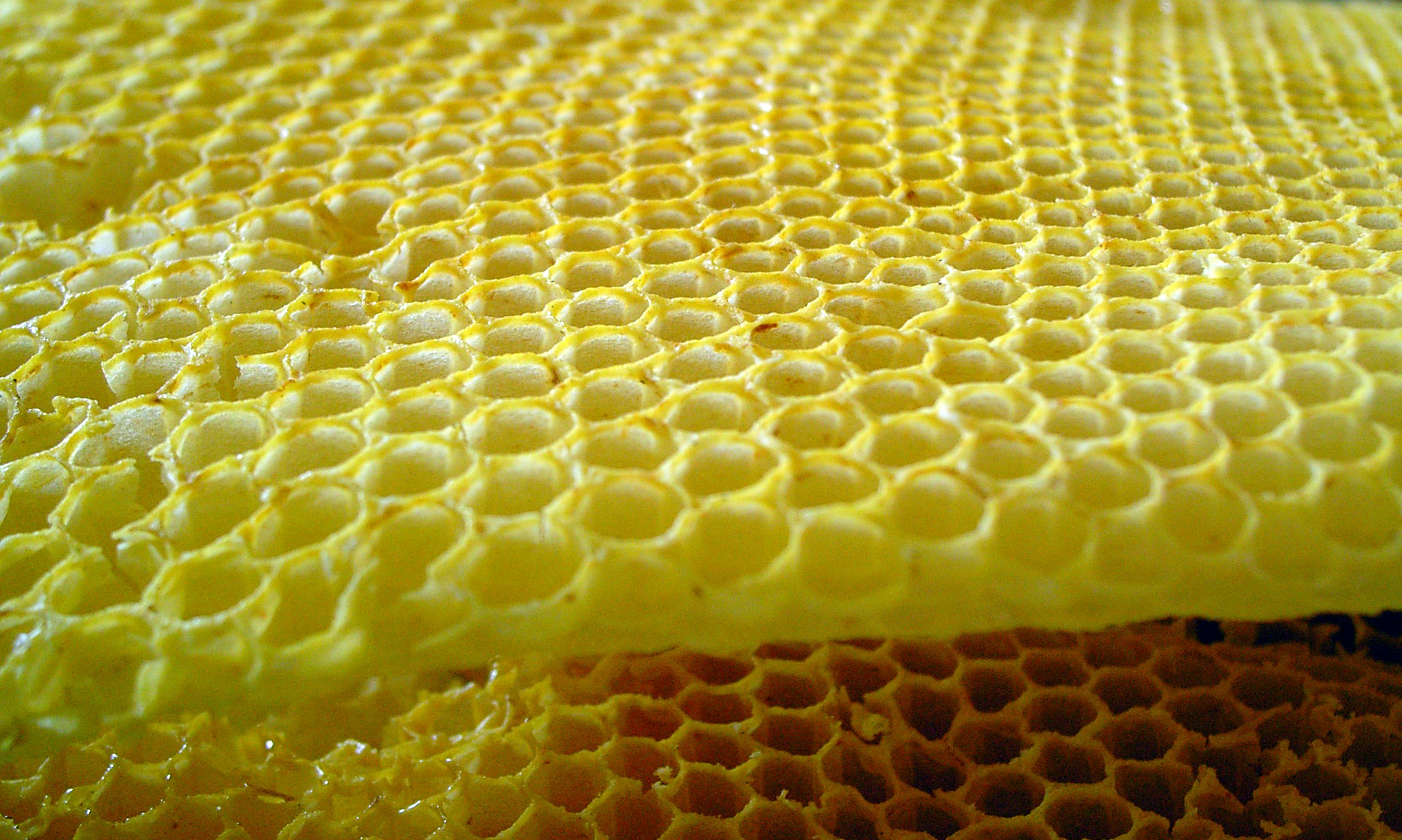 Honeycombs made of wax and full of honey, builded by black bees (Apis mellifera mellifera).